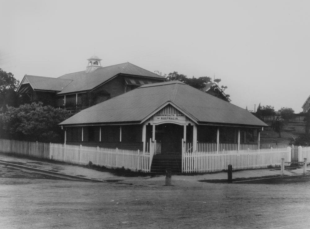 Commonwealth Bank building, Mount Morgan, 1922. The bank building is on the corner of Morgan Street and the Burnett Highway. The Central Primary School is in the background.